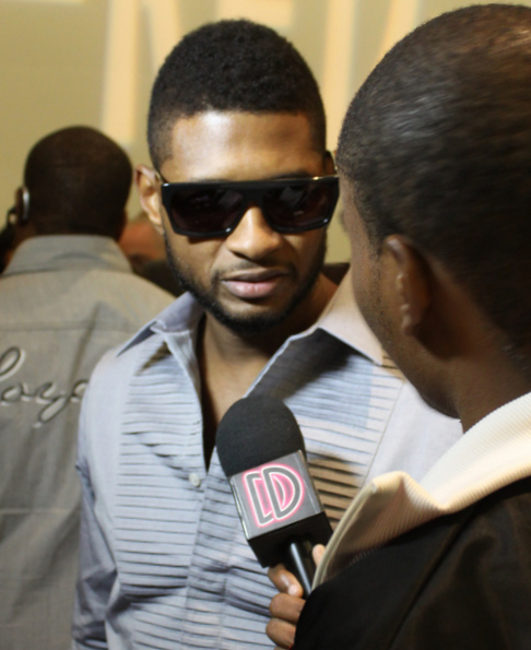 Usher Raymond at the Division 1 Launch Party 2010.